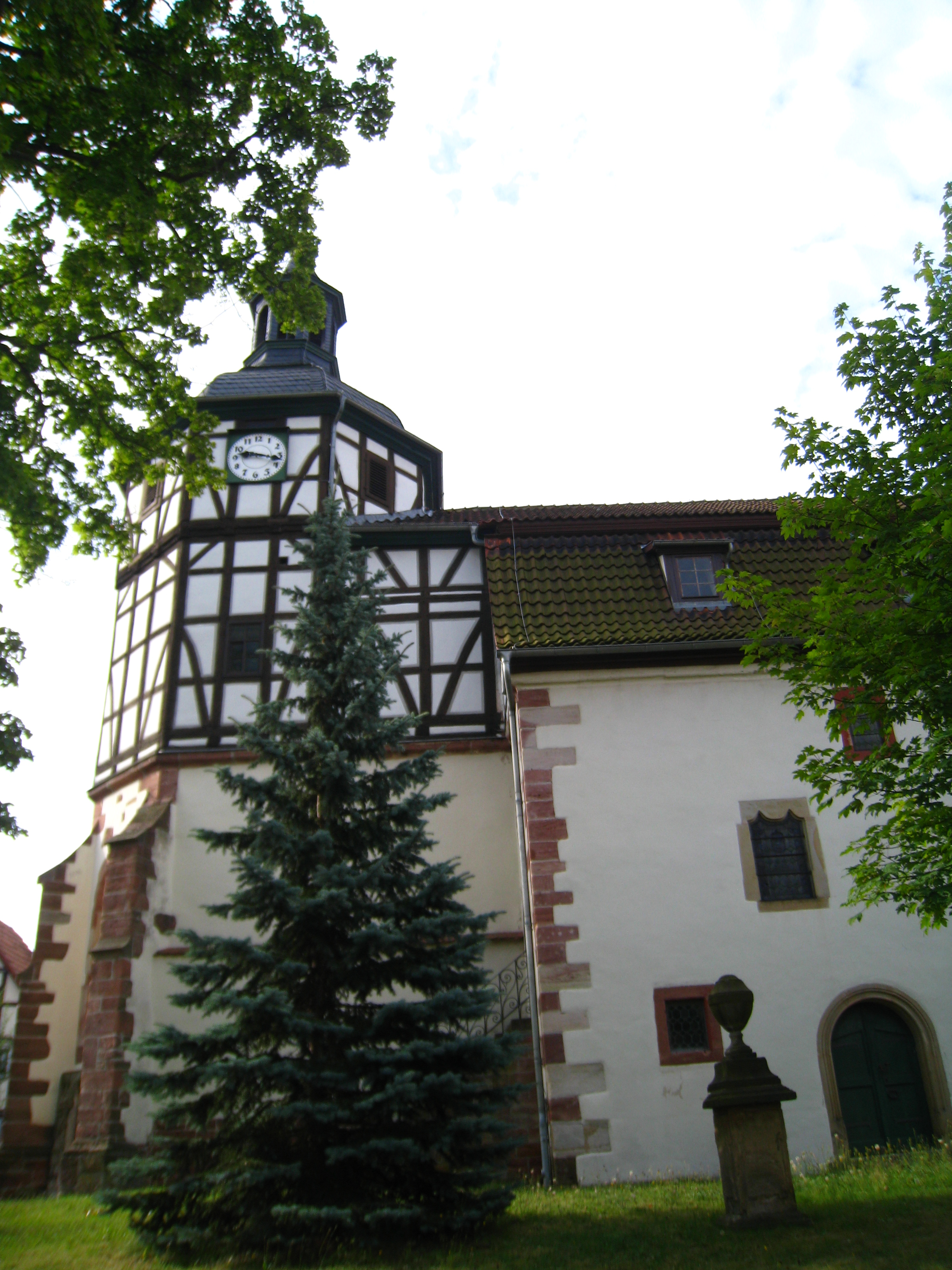 St. Katrin evangelic church in Gerstungen, Thuringia, Germany